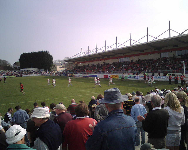 the game